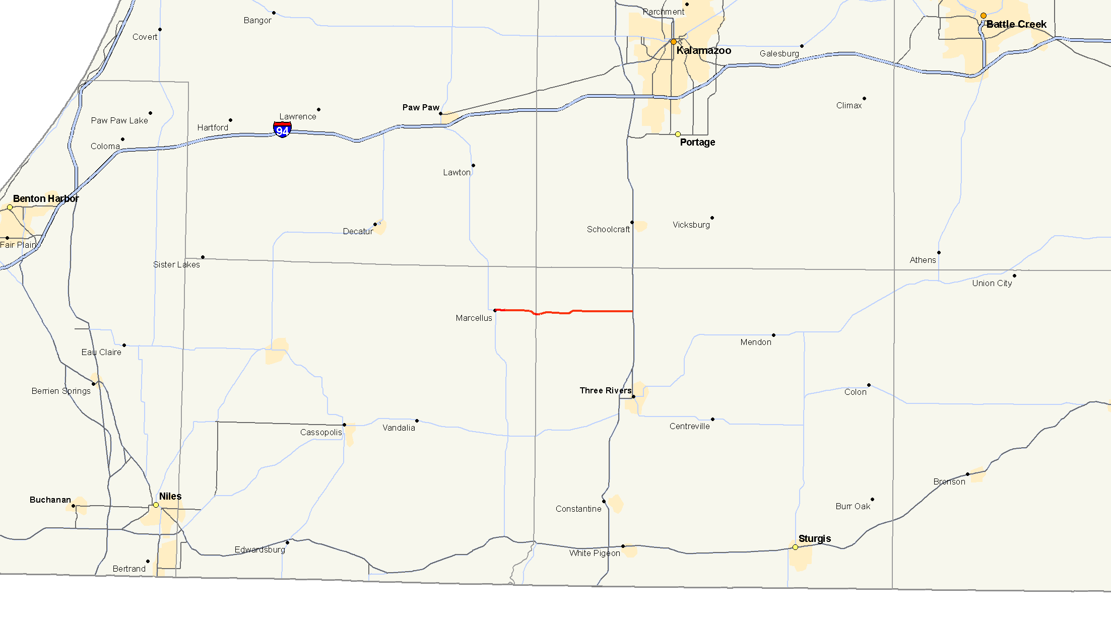 Map of M-216